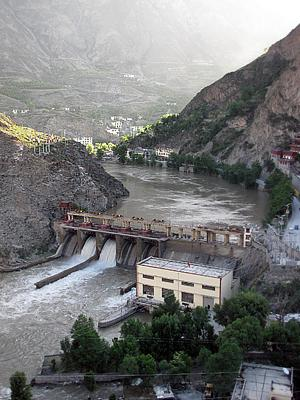 a Hydroelectric power station in Xiaojin County, Sichuan